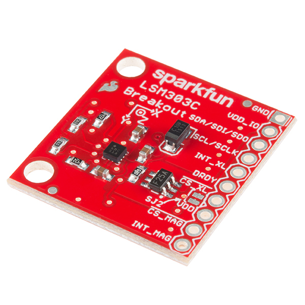 The LSM303C is a 6 Degrees of Freedom (6DOF) inertial measurement unit (IMU) in a single package, specifically developed as an eCompass device. The IC houses a 3-axis accelerometer and a 3-axis magnetometer. The LSM303C Breakout can be configured to generate an interrupt signal for free-fall, motion detection and magnetic field detection. [1] Sold for $16 by SparkFun in 2019.